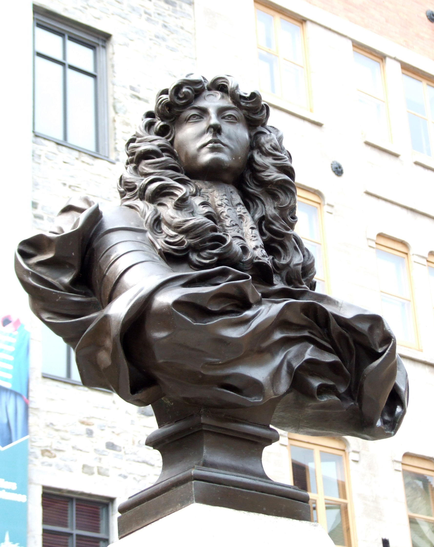 Quebec city, CANADA